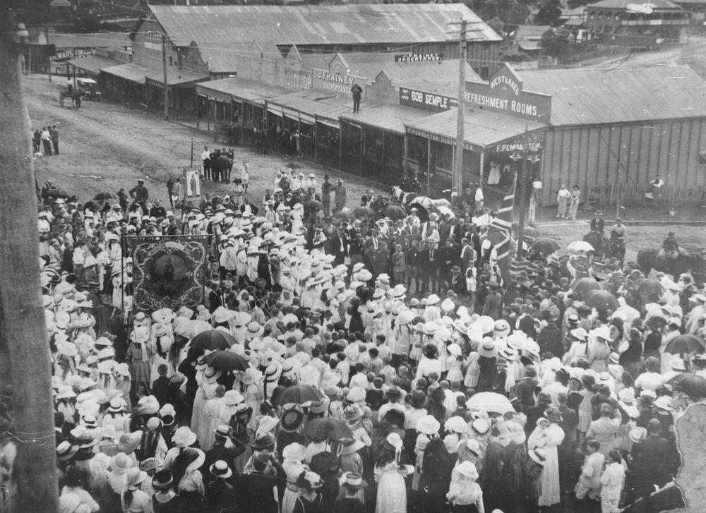 Anzac Day parade on Dee Street, Mt. Morgan, 1916 Crowds gather for the procession infront of Westlakes Refreshment Rooms, Bob Semple's store, J. Frainey Undertaker and other adjacent shops.